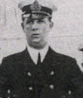 Fourth officer of the Titanic, Joseph Boxhall